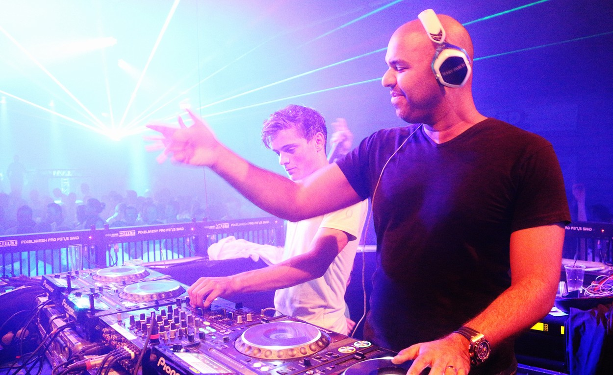 Martin Garrix and Sidney Samson at Midsummer White 2013